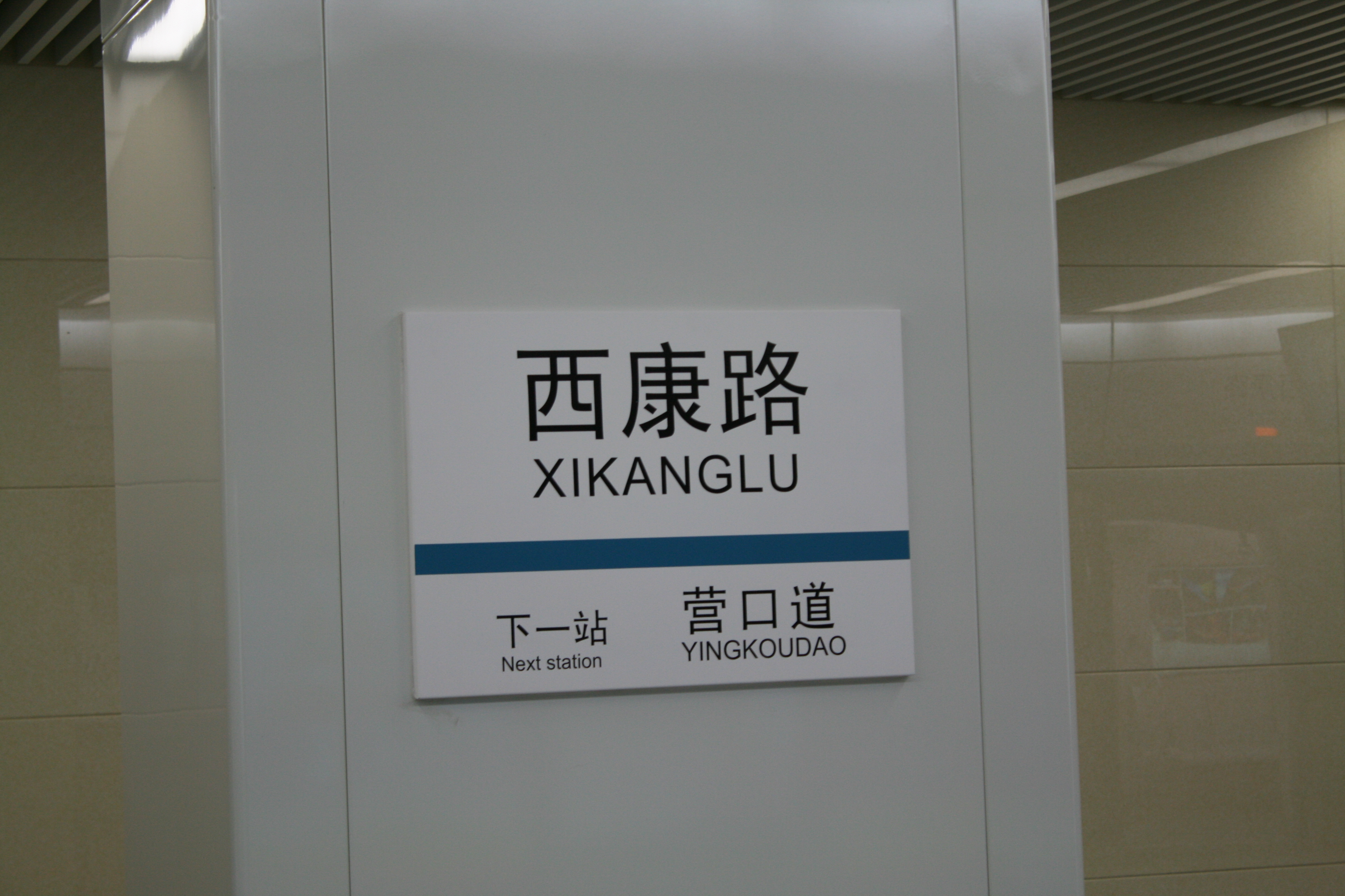 tianjin metro line 3 the XIKANGLU Station ...0001